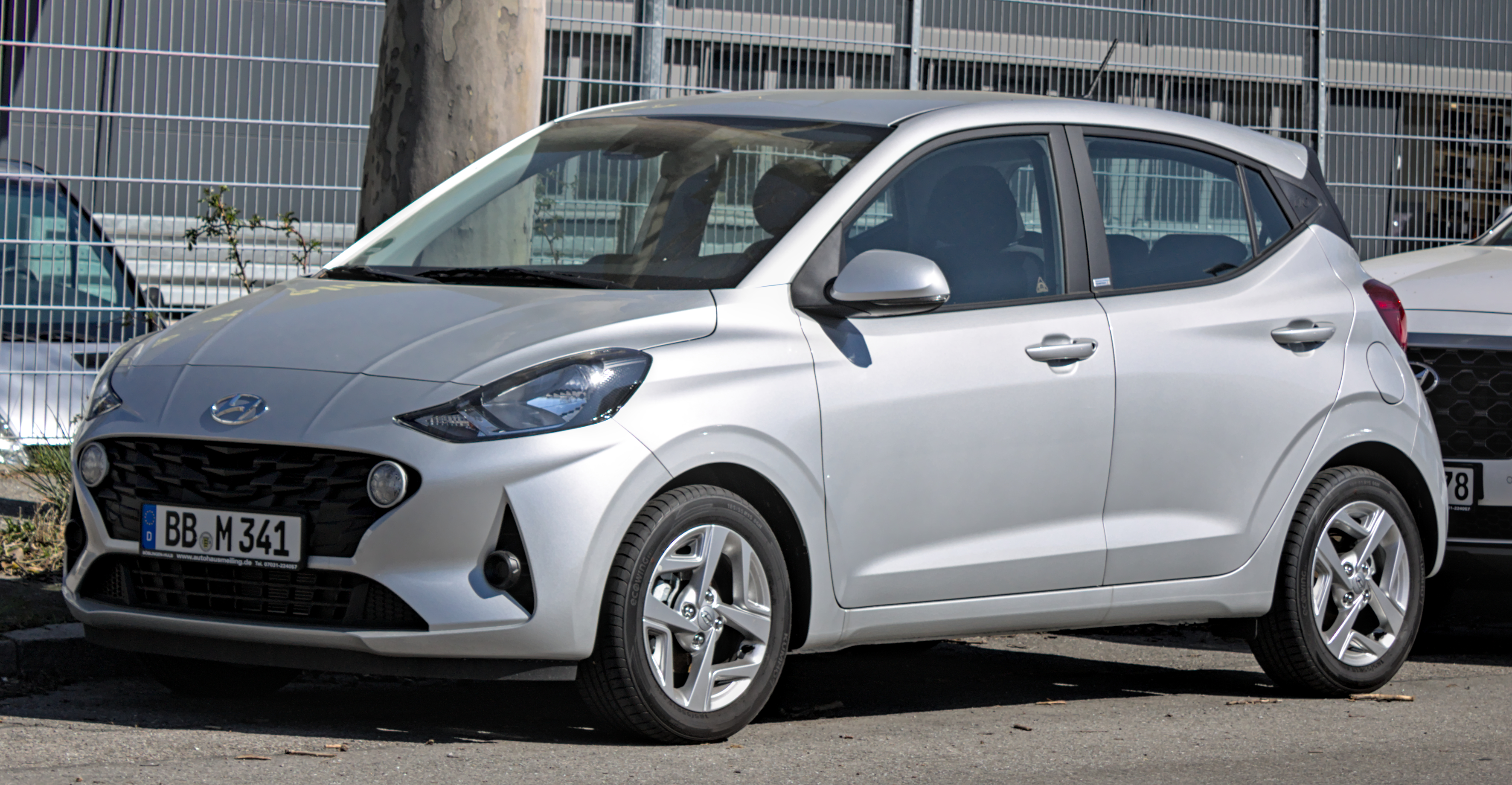 Hyundai_i10_(LA) in Böblingen